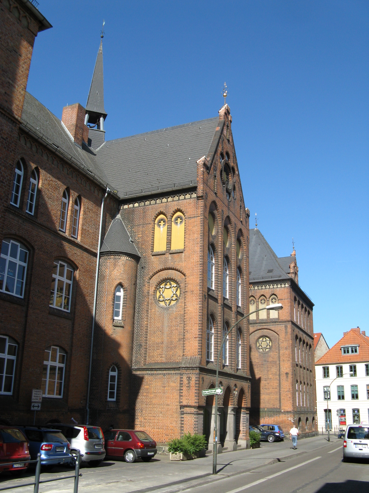 School on the area of the former Monastery, today: Goethe-school in Wismar, Mecklenburg-Vorpommern, Germany